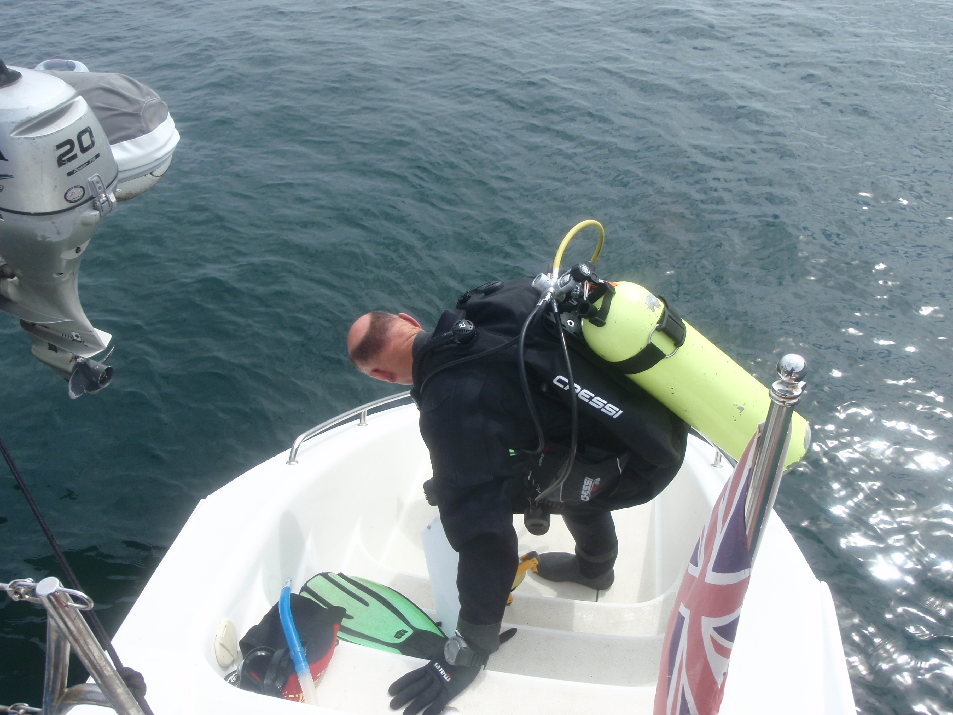 Diver preparing for a RLS dive on the stern platform of Reef Dragon